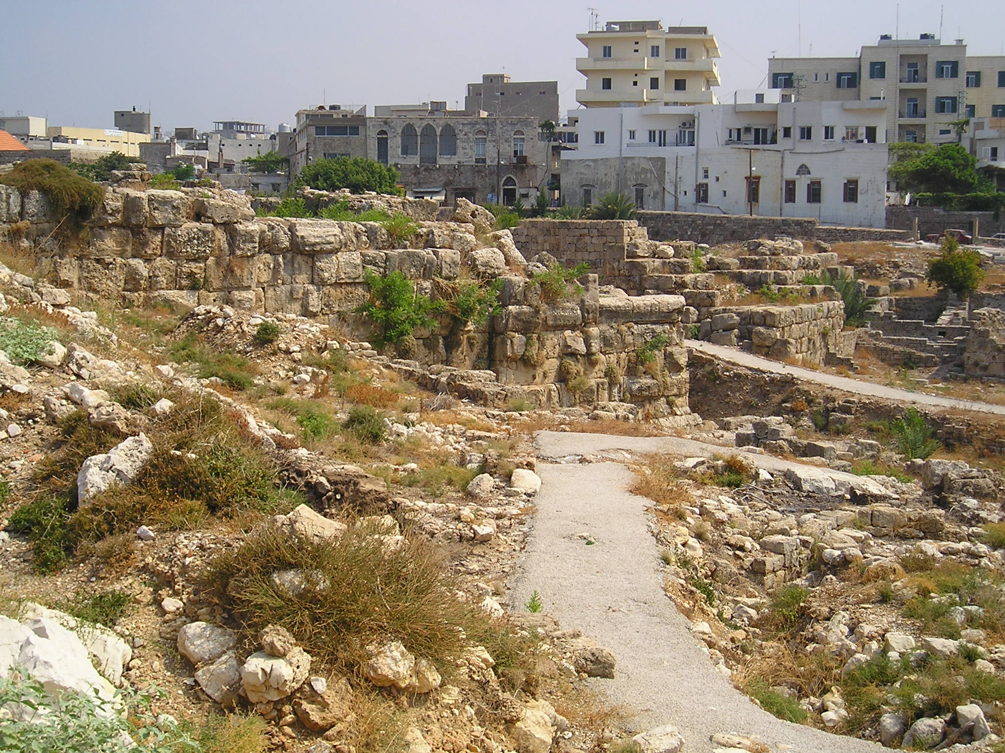 Byblos, Lebanon - ruins of Persian Castle